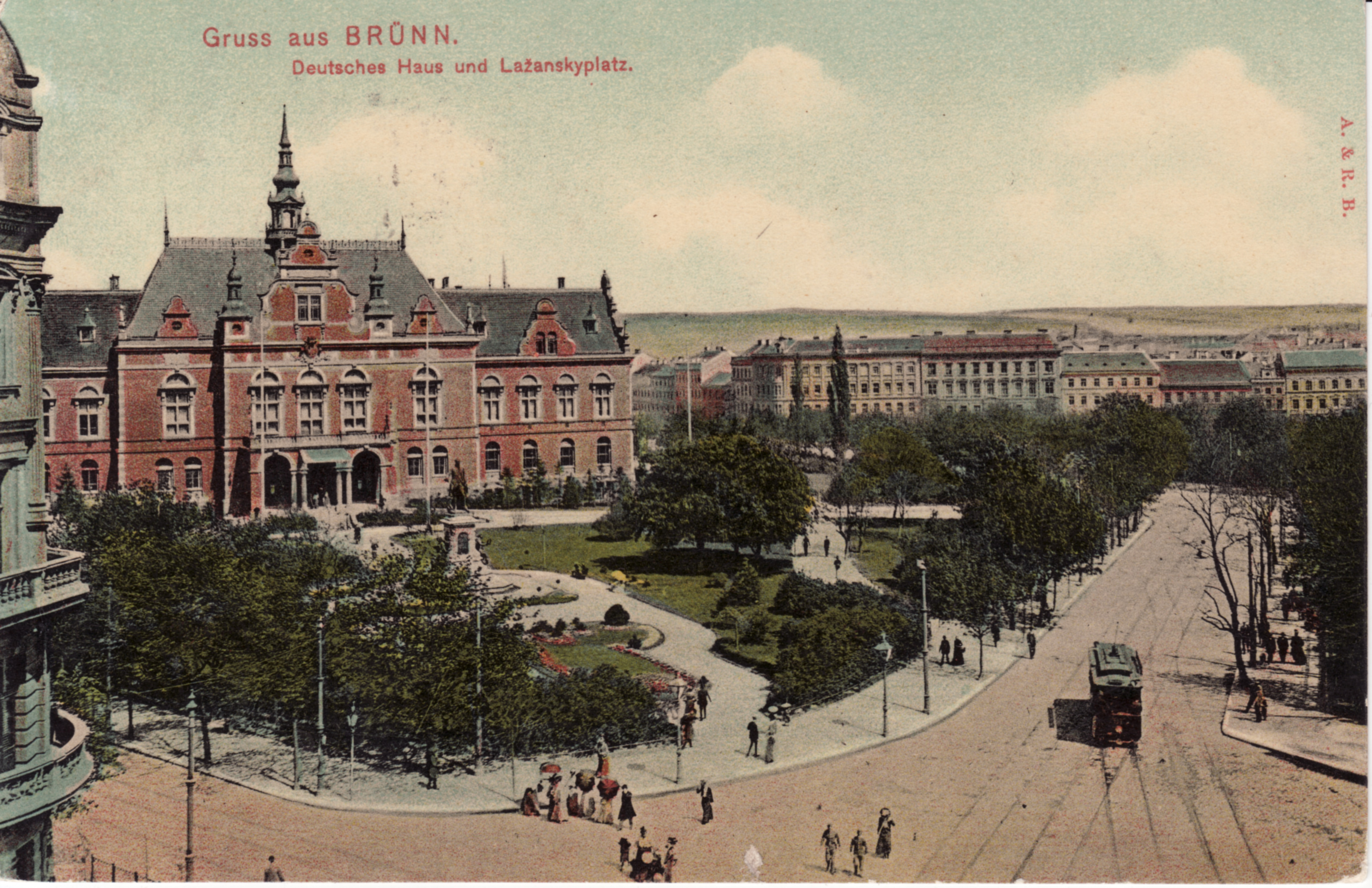 Lazansky square